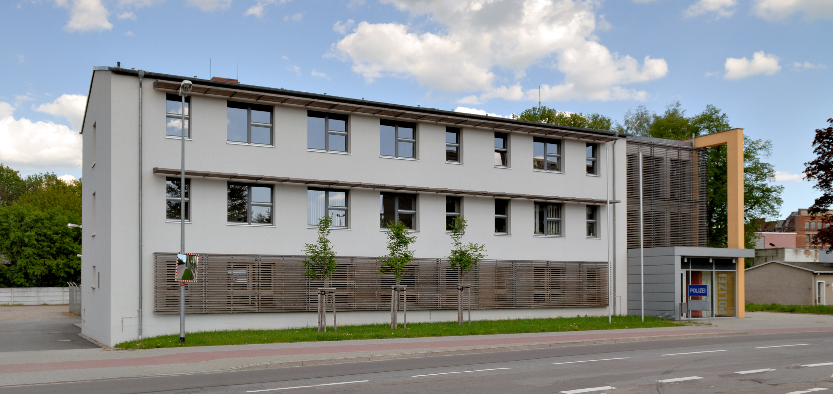 This image shows the police station in Flöha, Germany.